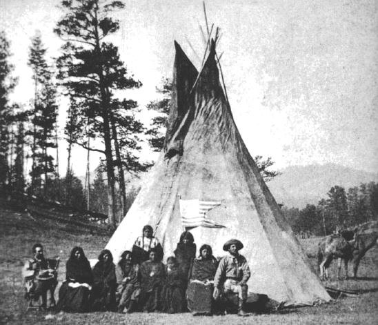 7th Cavalry Guidon found at Slim Buttes Other information No.